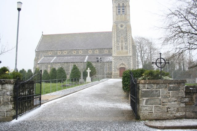 St Patrick's Church, Crossroads A very large and majestic Catholic church, St Patricks, in the village of Crossroads, near Killygordon is captured here in a snowstorm.